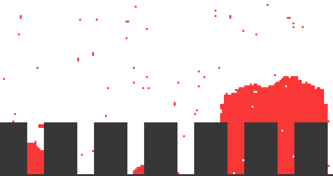 Nucleation in the Ising Model (2D) in and out of pores.